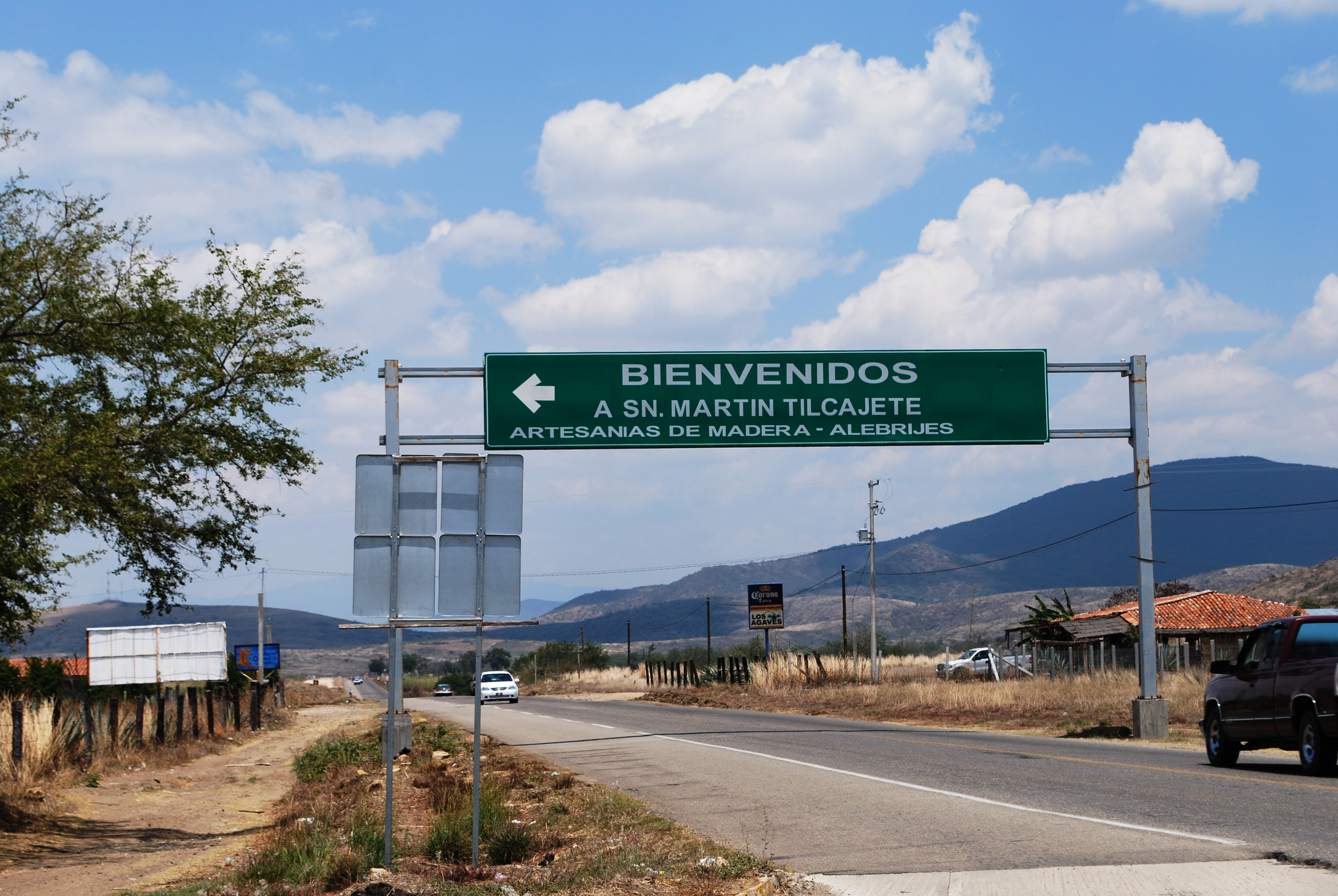 Road sign for San Martin Tilcajete, Oaxaca, Mexico